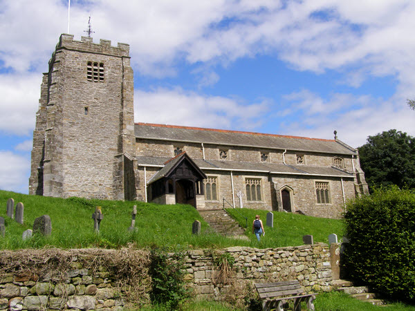 St Michaels Church Whittington